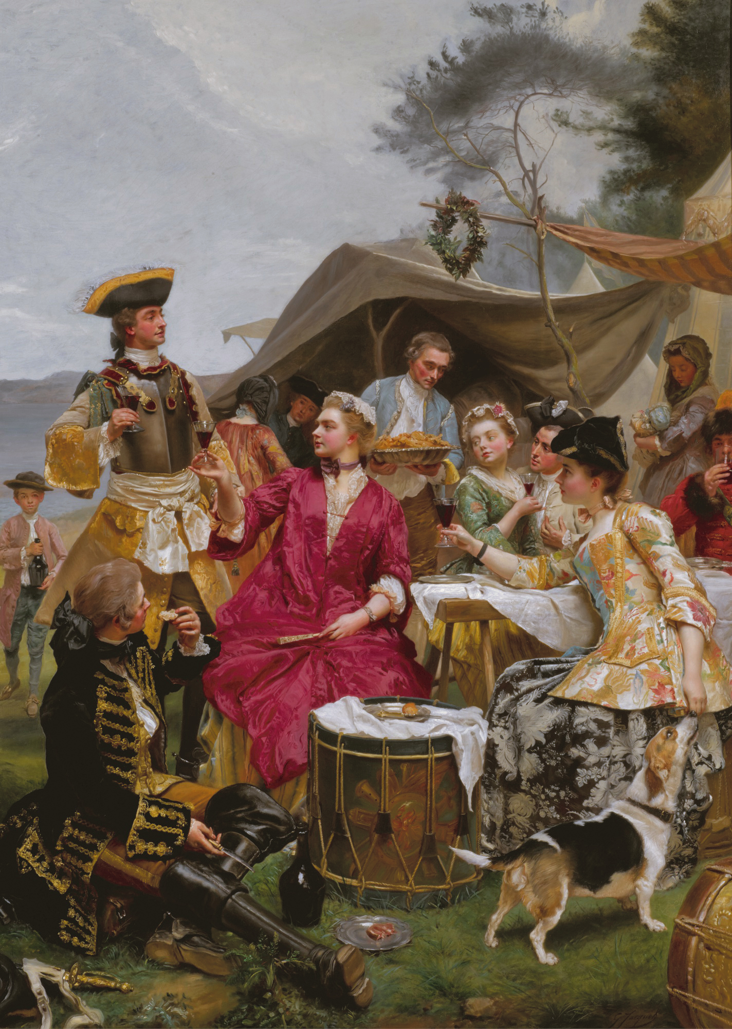 La bienvenue oil on canvas 180.4 x 128.3 cm signed b.r.: G Jacquet